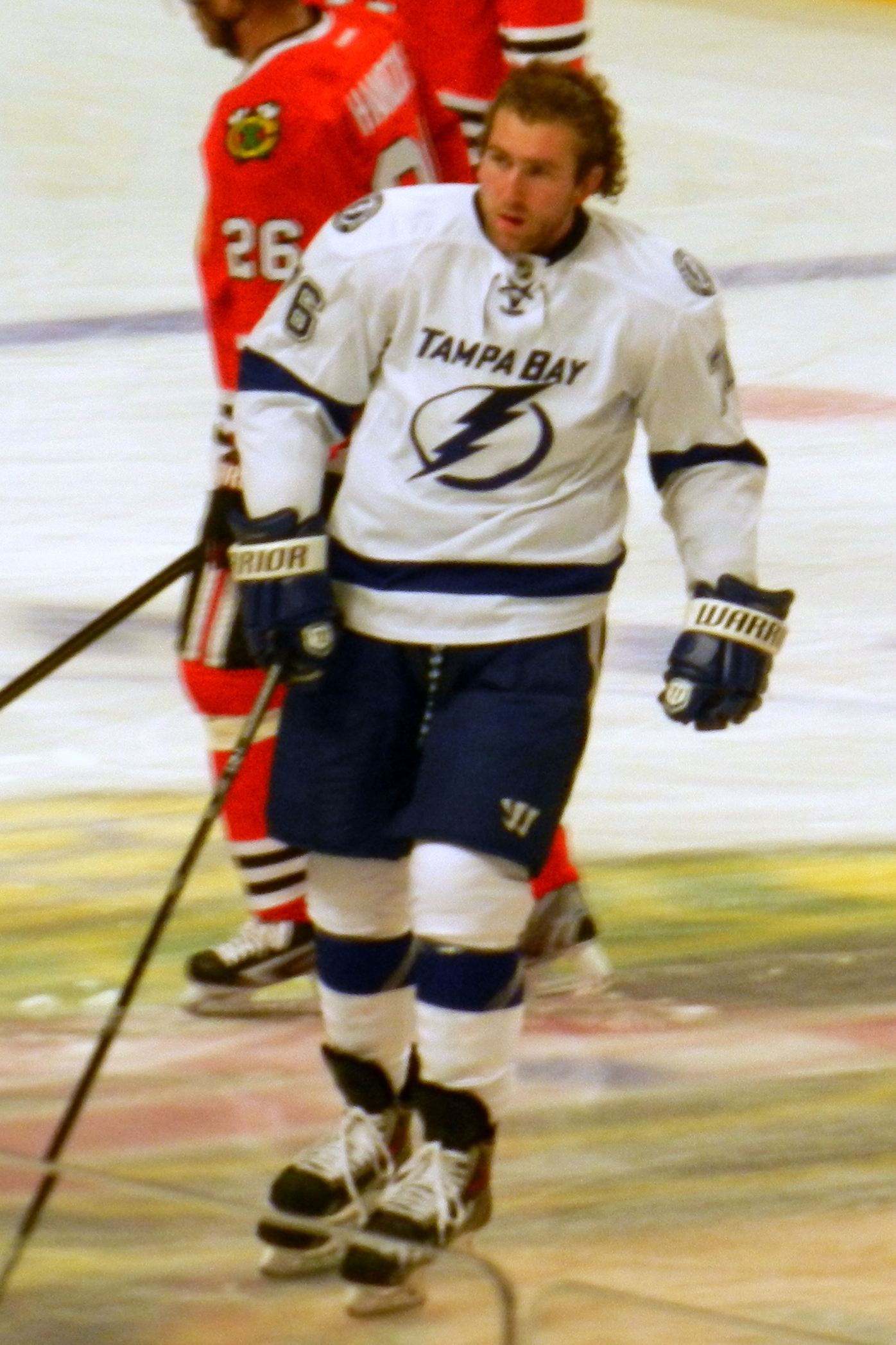 Pierre-Cedric Labrie with the Tampa Bay Lightning during warm-up before a gamve vs. the Blackhawks at the United Center in Chicago